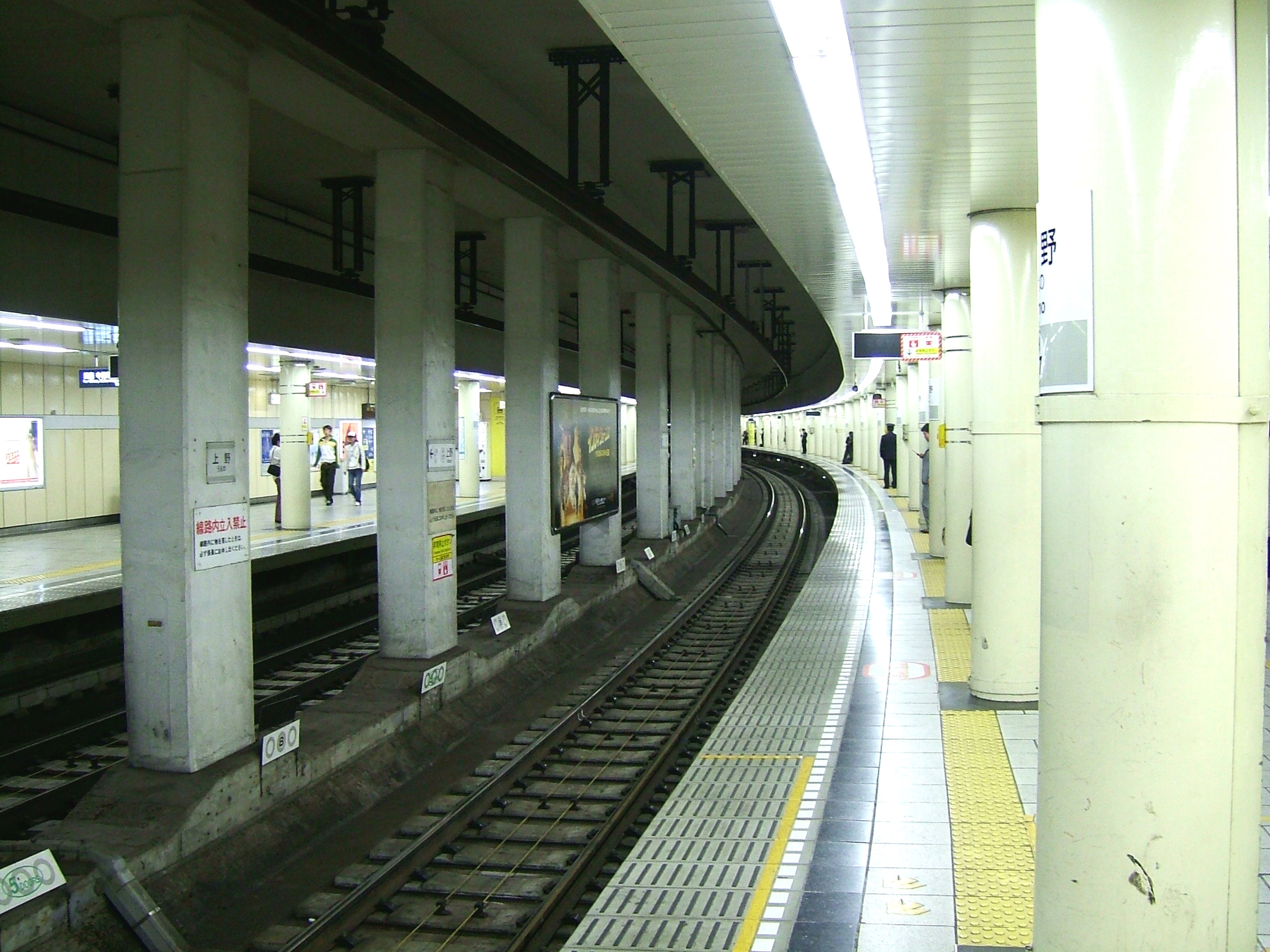 The platforms at Ueno Station on the Tokyo Metro Hibiya Line in Ueno, Tokyo, Japan